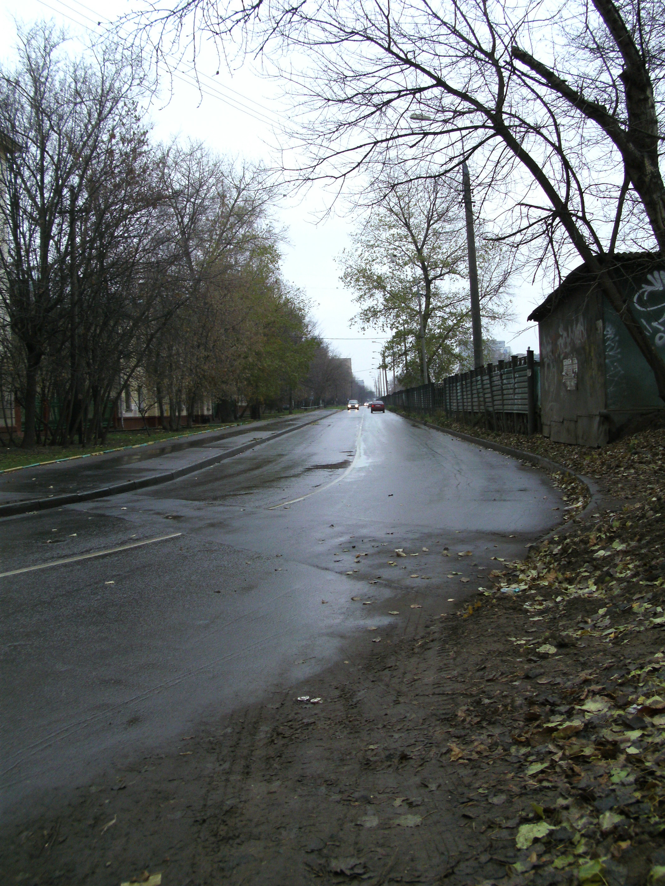 The end of 1st Voykovskiy proezd (Moscow)